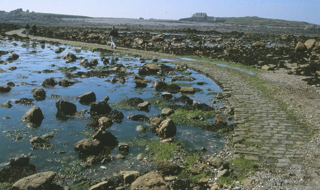 Lihou causeway. We are striding out, confident that a visit to the island can be accomplished before the tide comes in.